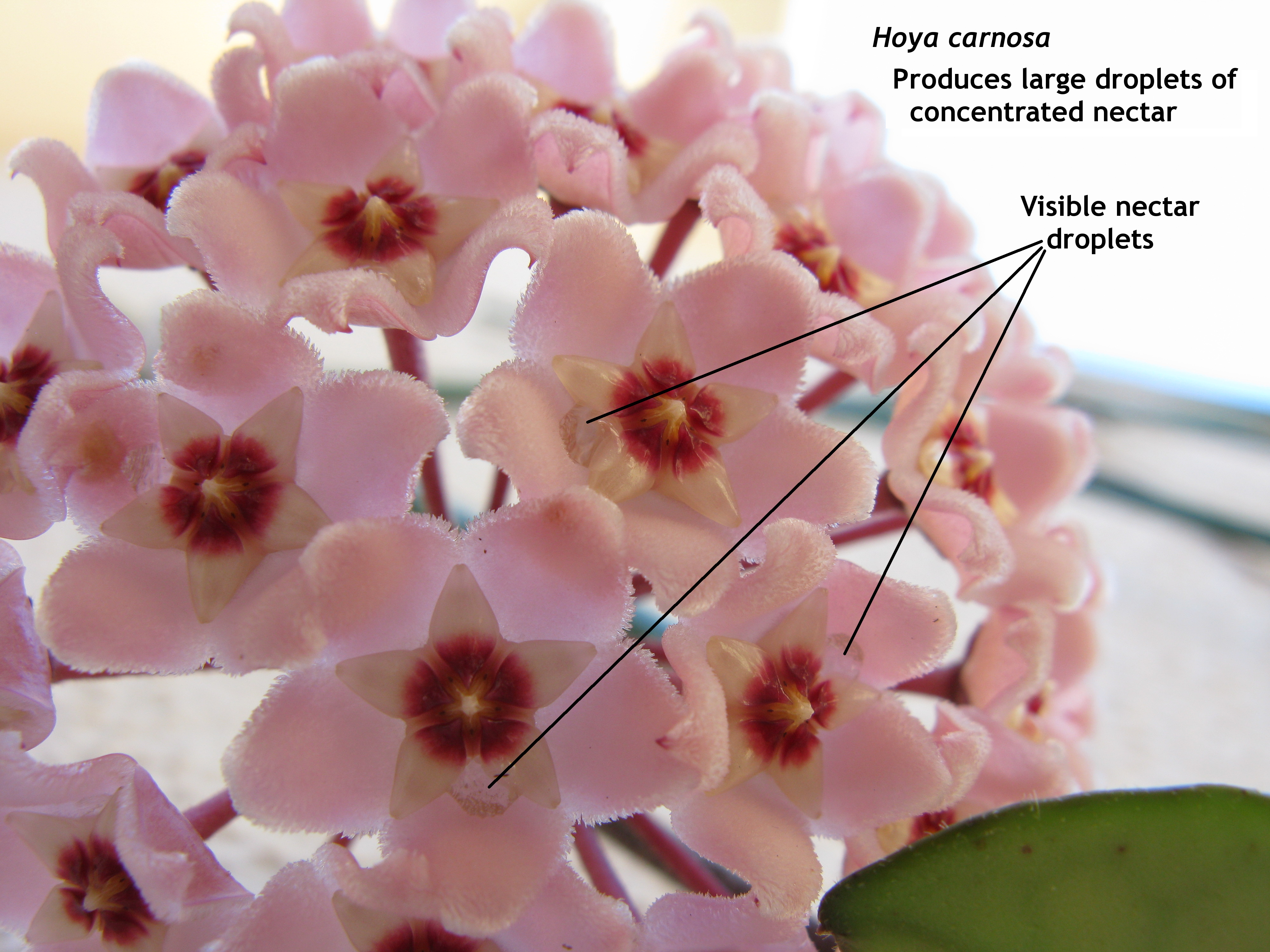 Hoya carnosa flowers secrete copious nectar